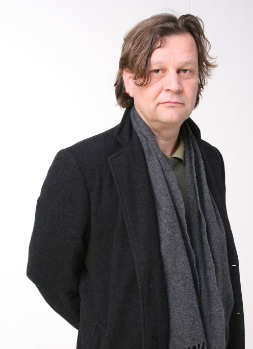 Heribert C. Ottersbach, Portrait by C.V. Dahmen 2008